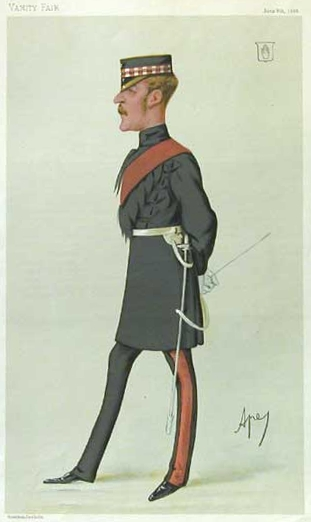 Caricature of Sir William Alexander Gordon Gordon-Cumming, 4th Baronet. Caption reads Bill.